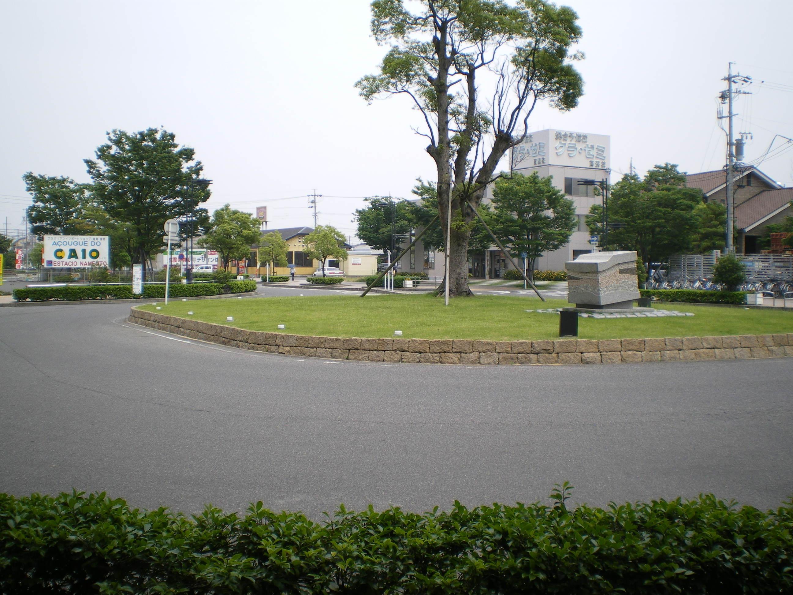 Nagoya Railroad Mikawa Line Mikawa Takahama Station East Plaza